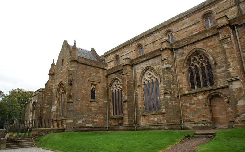 St Michael's Church, Linlithgow, Scotland. View from north.